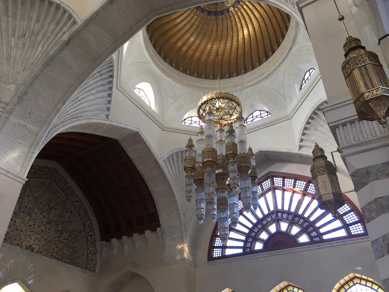 Chandlier